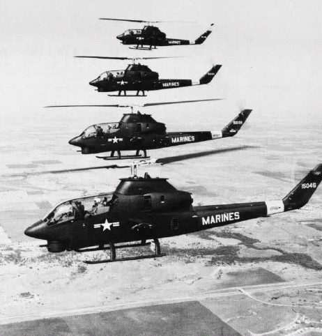 Picture of the first Bell AH-1G Cobra helicopters delivered to the U.S. Marine Corps in April 1969. 38 AH-1Gs were procured from the U.S. Army, before the AH-1J was delivered, which was designed more for the requirements of the USMC. The 38 AH-1Gs had BuNos assigned but retained their Army serial numbers.